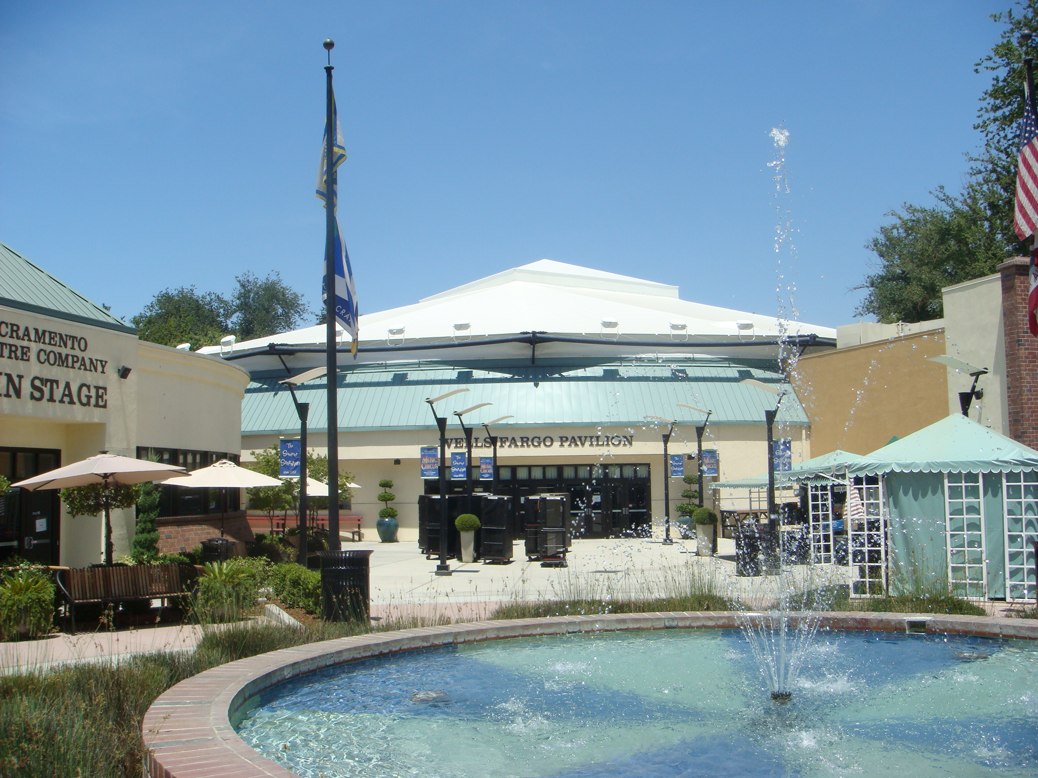 The wells Fargo Pavilion with Music Circus load in trunks waiting for in front. California Musical Theatre.